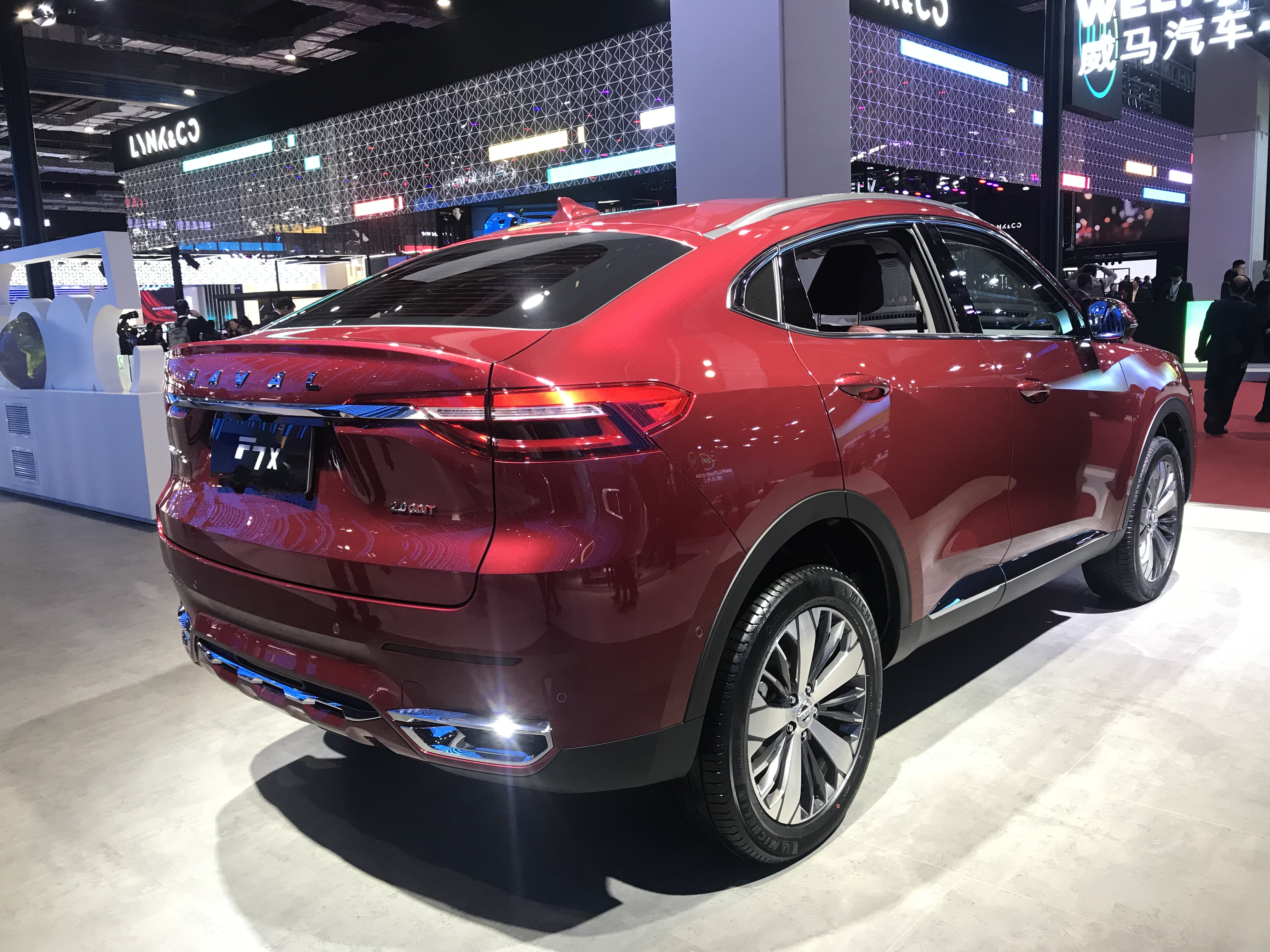 Haval F7x rear